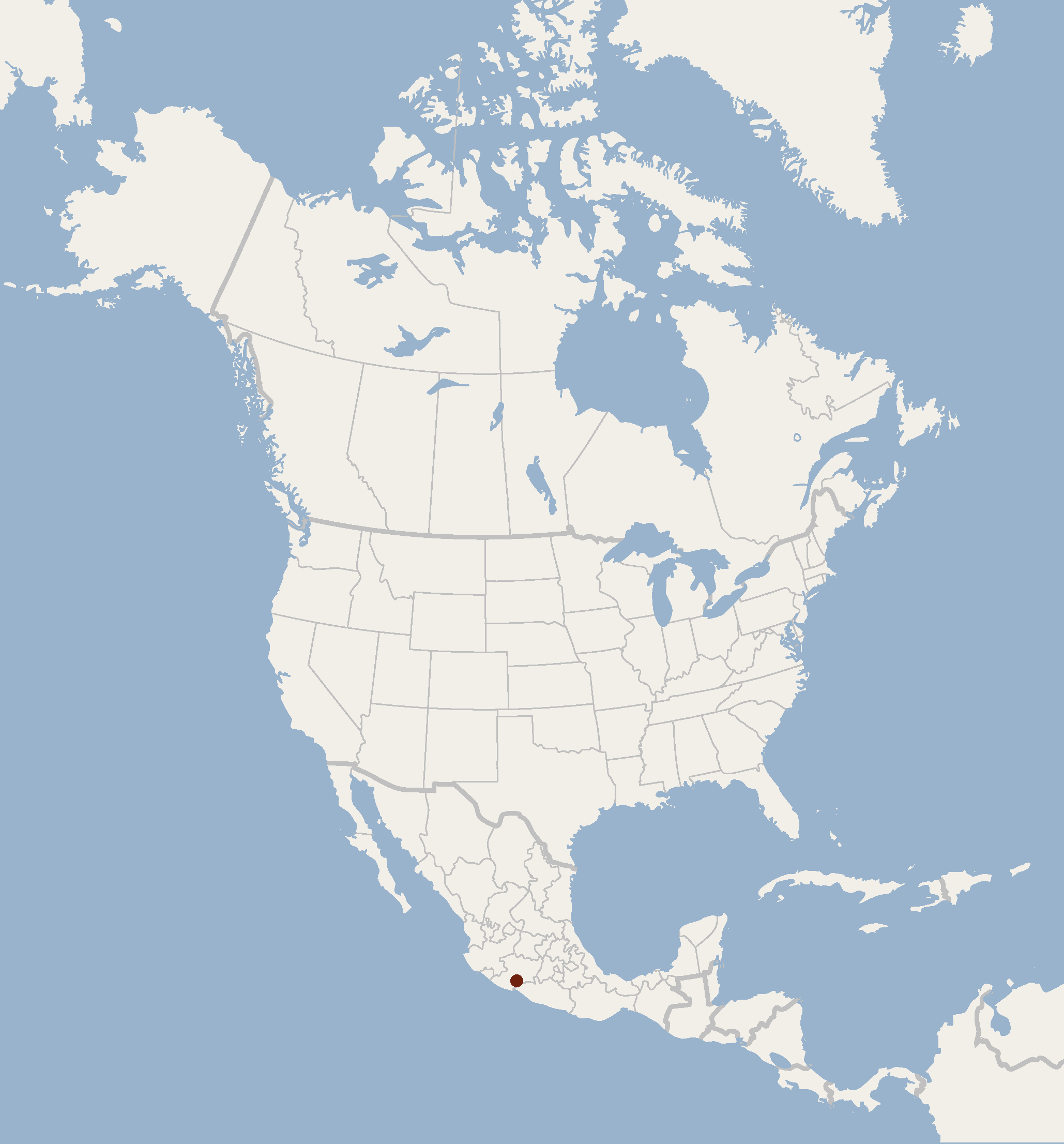 Geographical distribution of Rhogeessa mira according to Museum specimens